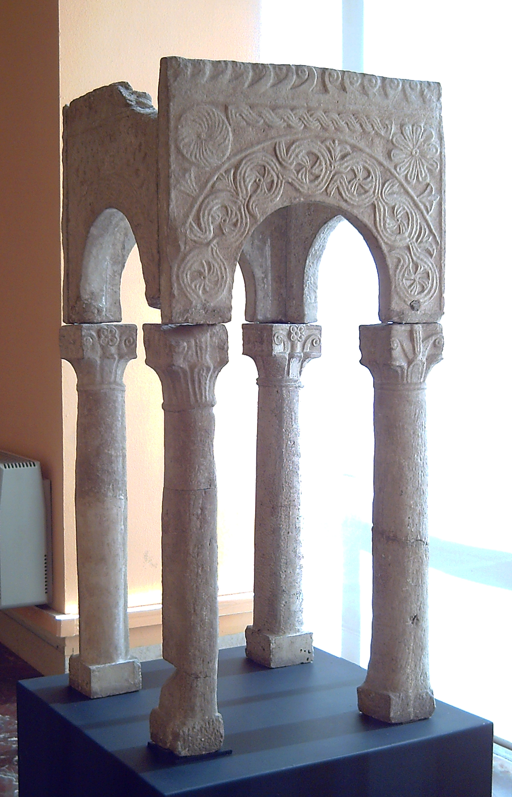 An altar baldachin from the region of Rome (Italy), sculpted in marble limestone.